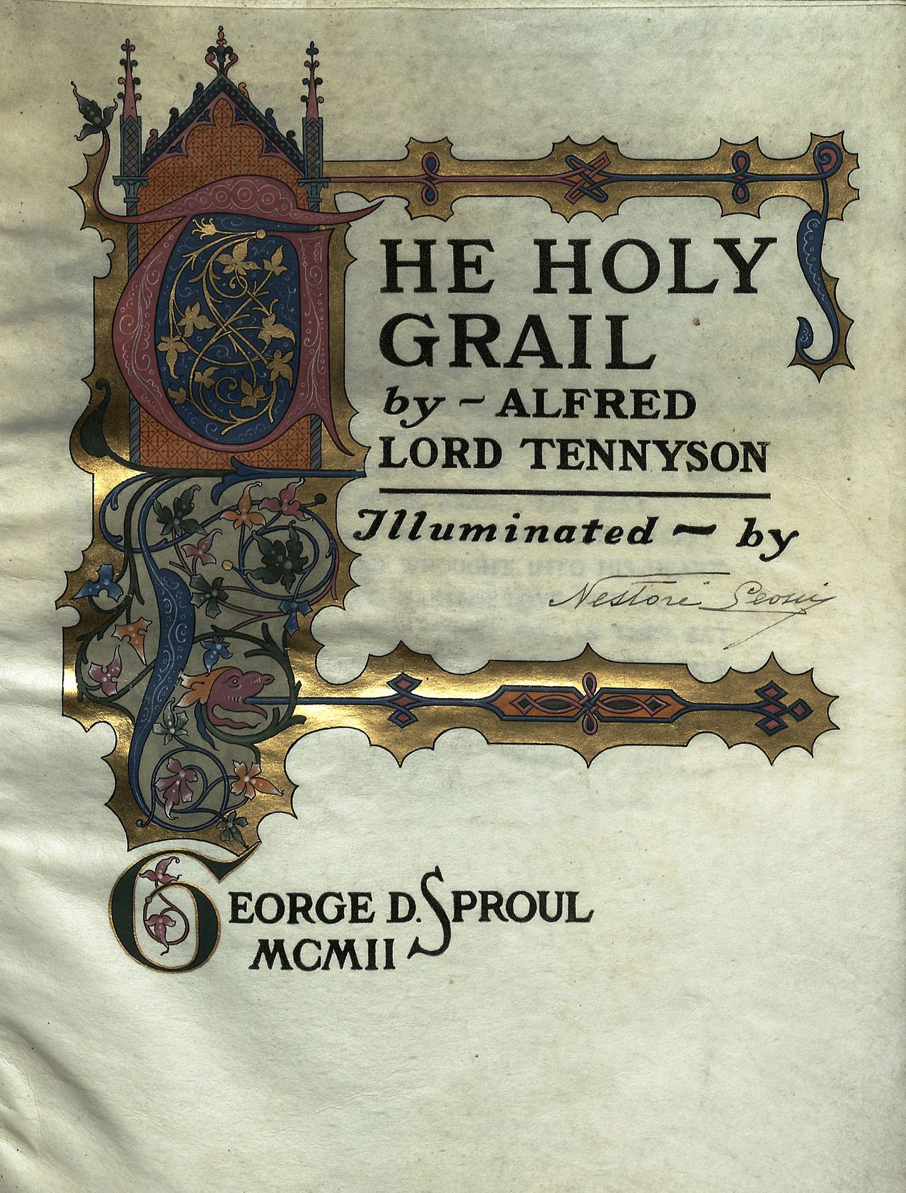 Title page for The Holy Grail, 1902, by Alfred Tennyson (1809-1892), illuminated by Nestore Leoni (1862-1947). Typ 970.02.8266, Houghton Library, Harvard University